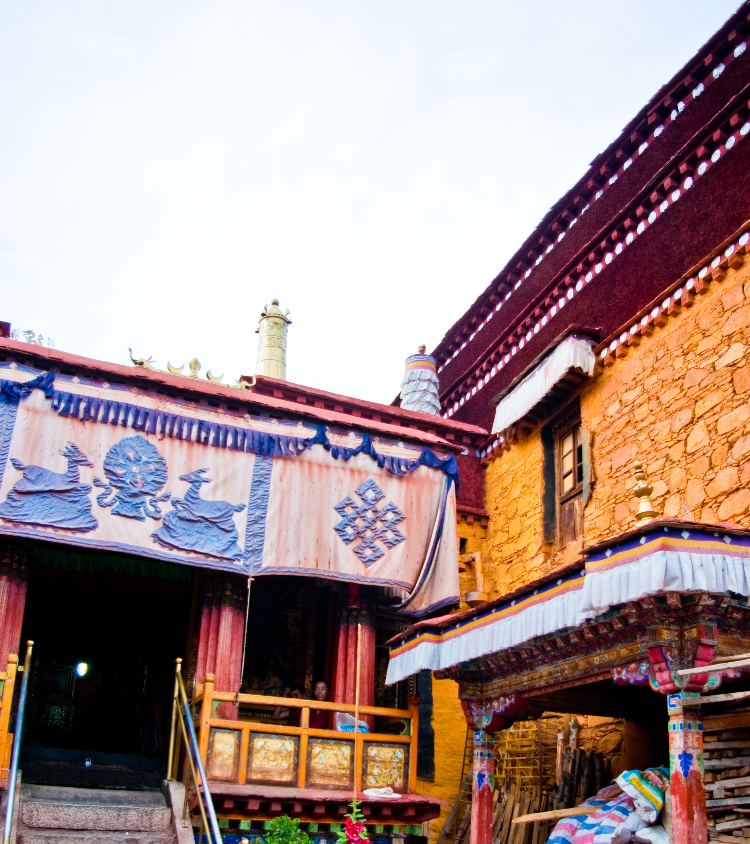 meru sarpa monastery (Lhasa)